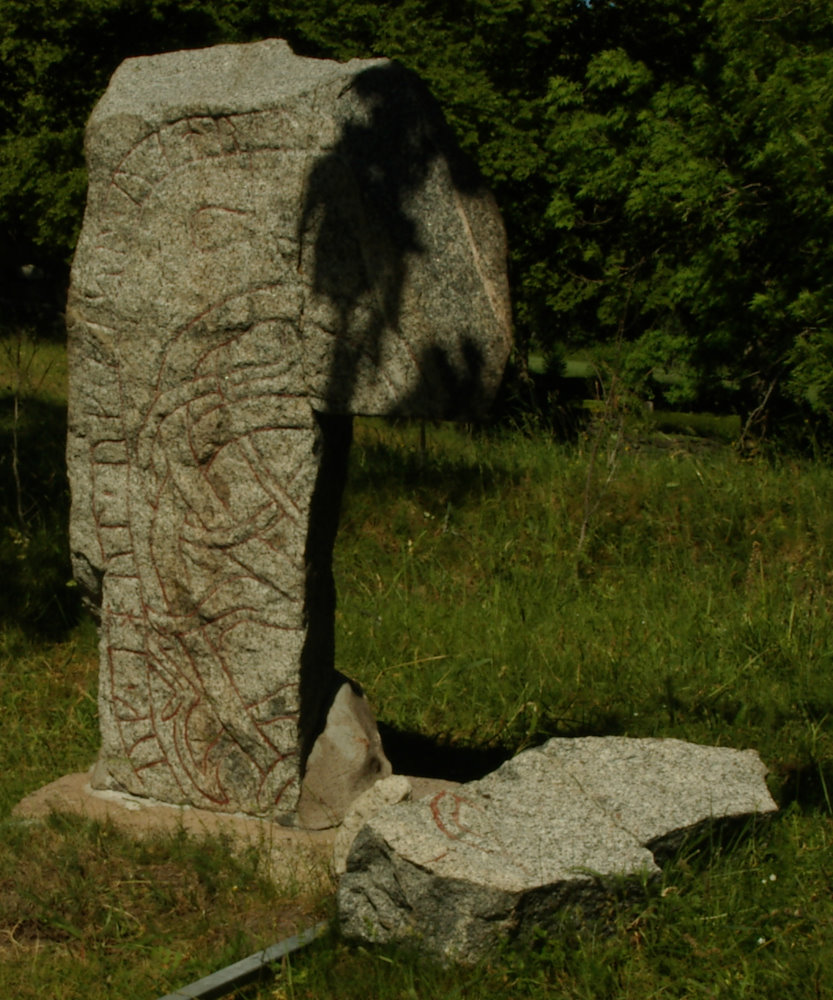 runic stone Upplands runinskrifter U1027